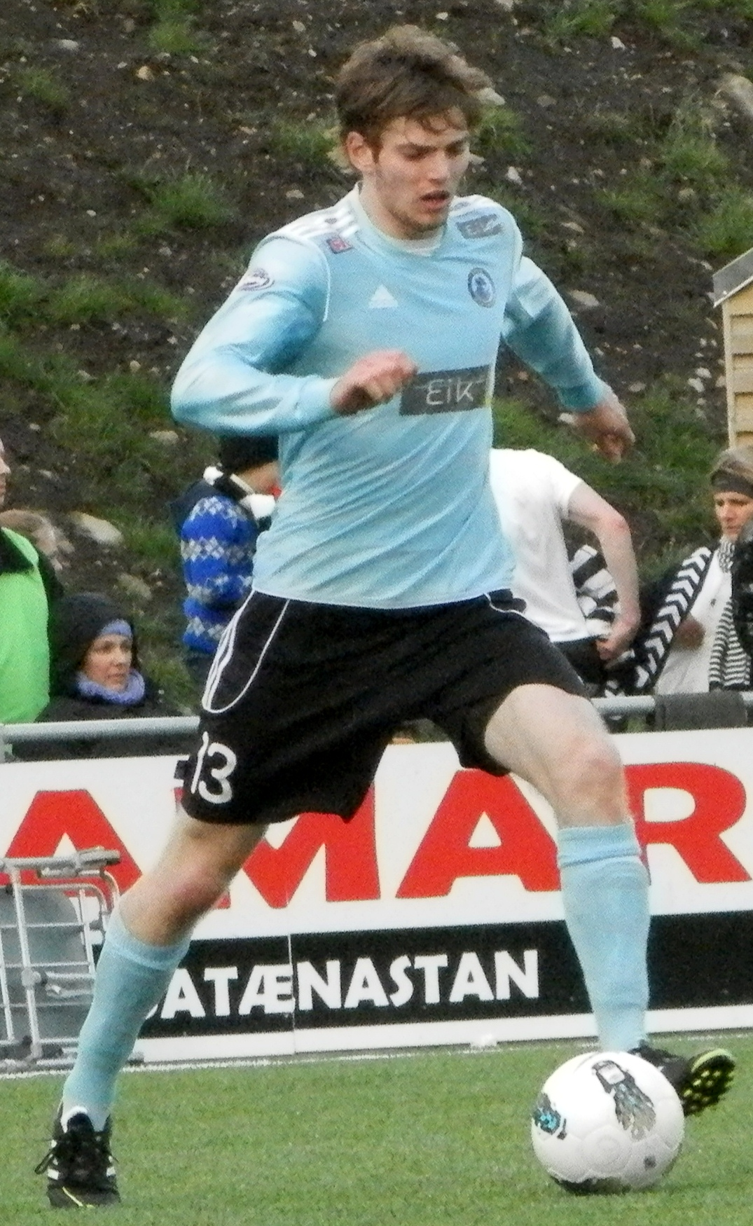 Erling D. Jacobsen is a Faroese football player, a defender, who currently (2012) plays for Víkingur Gøta and the Faroe Islands national team. This photo is from a match in the Faroese Effodeildin (the men's best division) in September 2012.